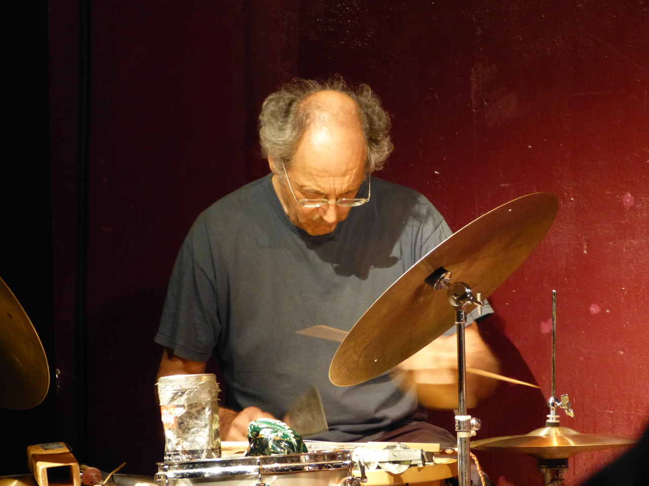 Paul Lytton during the Memorial for Peter Kowald at Stadtgarten Cologne, Germany, September 21st, 2012